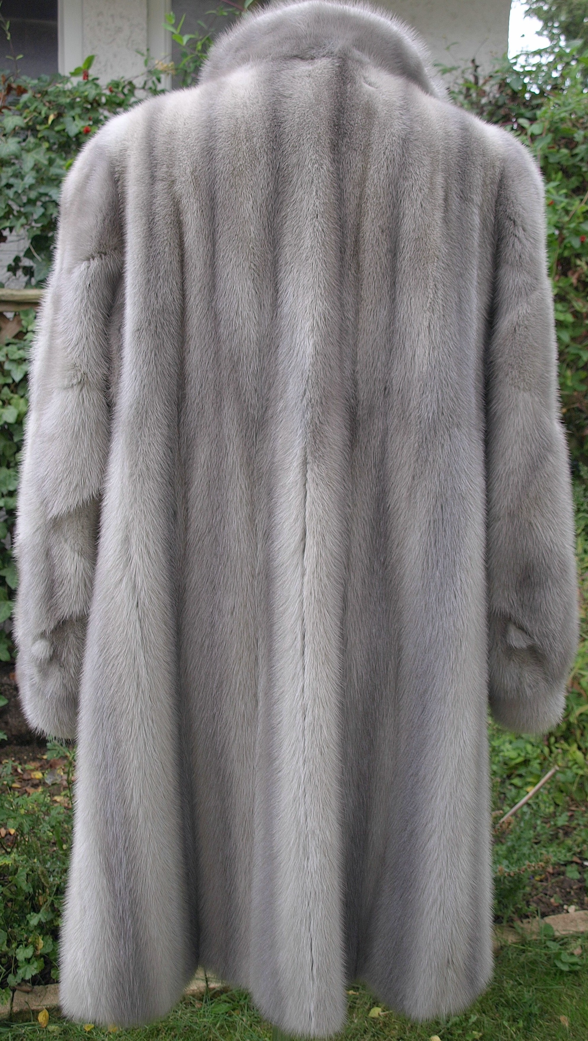 Sapphire mink fur coat Sapphire Mink describes the grey mink. (Saga)